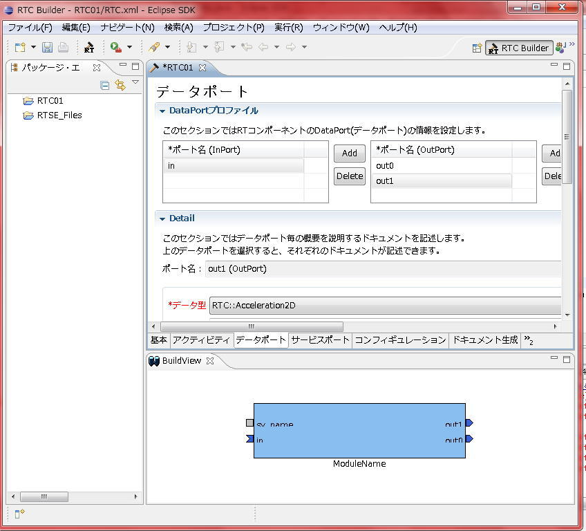 RTC Builder's Interface